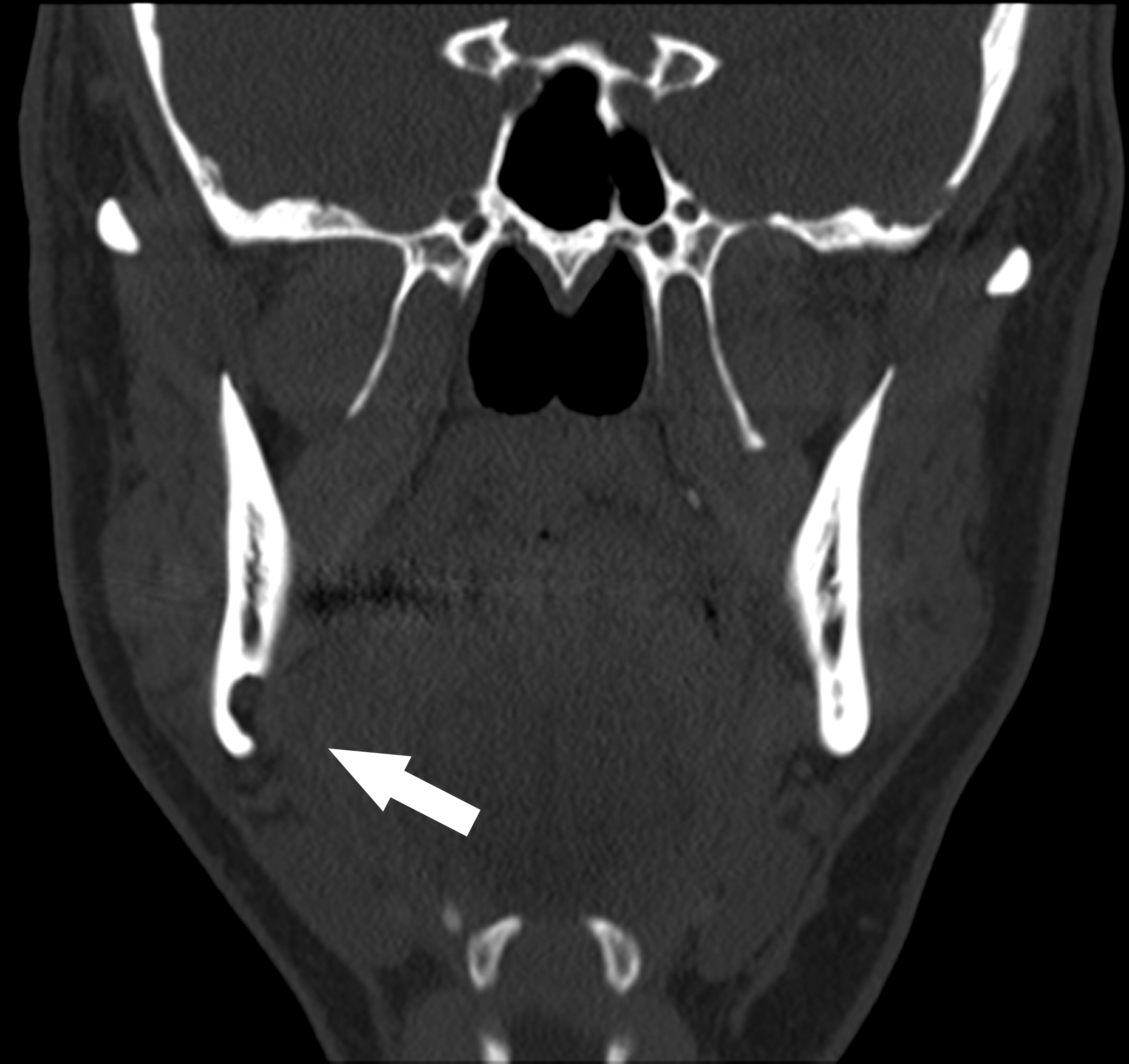 Well corticated 1cm round defect in the medial cortex of the mandible in the right angle of the jaw